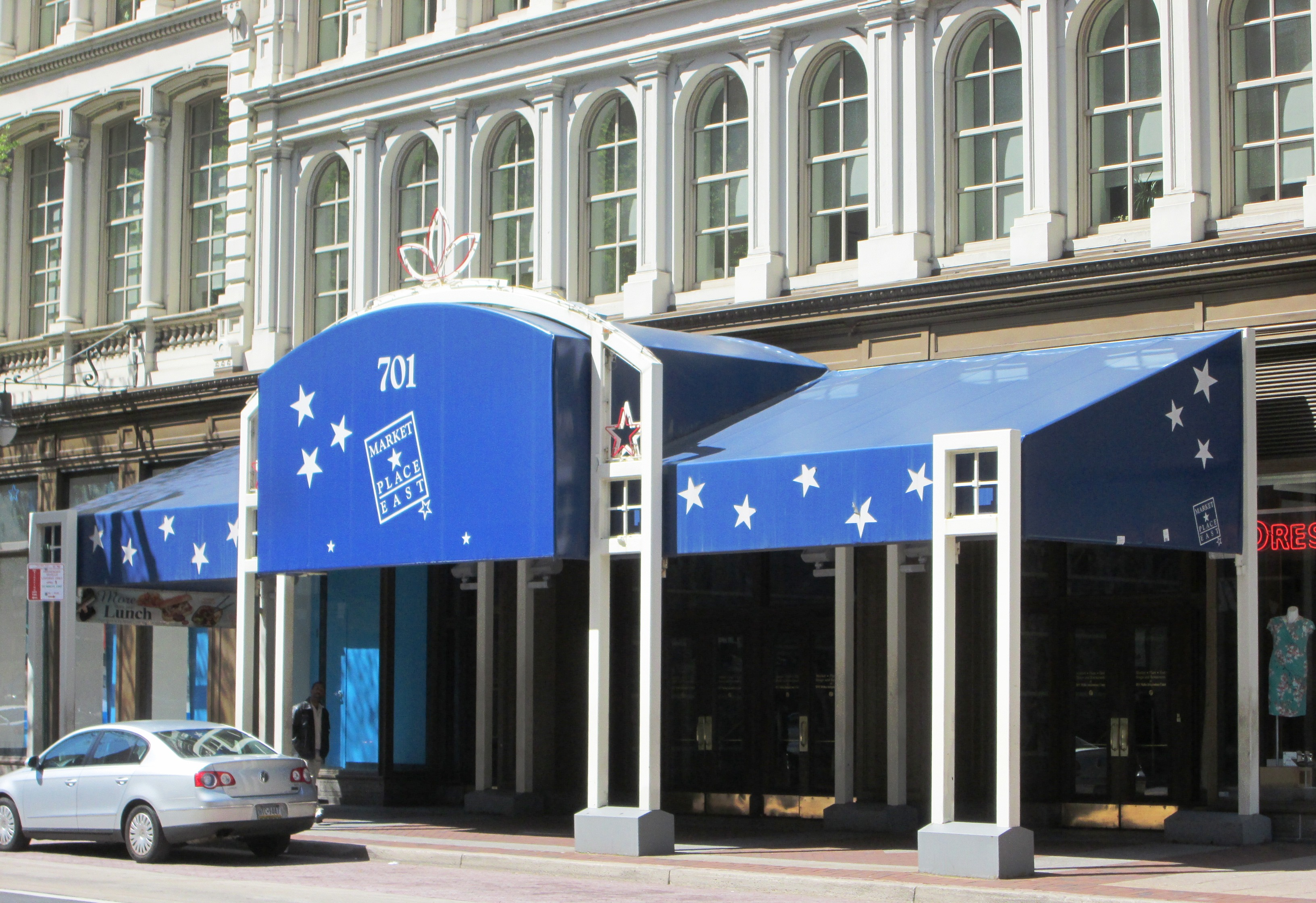 The entrance to the former Lit Brothers Store Building(s), now Market Place East, at 701 Market Street between N. 7th and N. 8th Streets in the Center City area of Philadelphia.